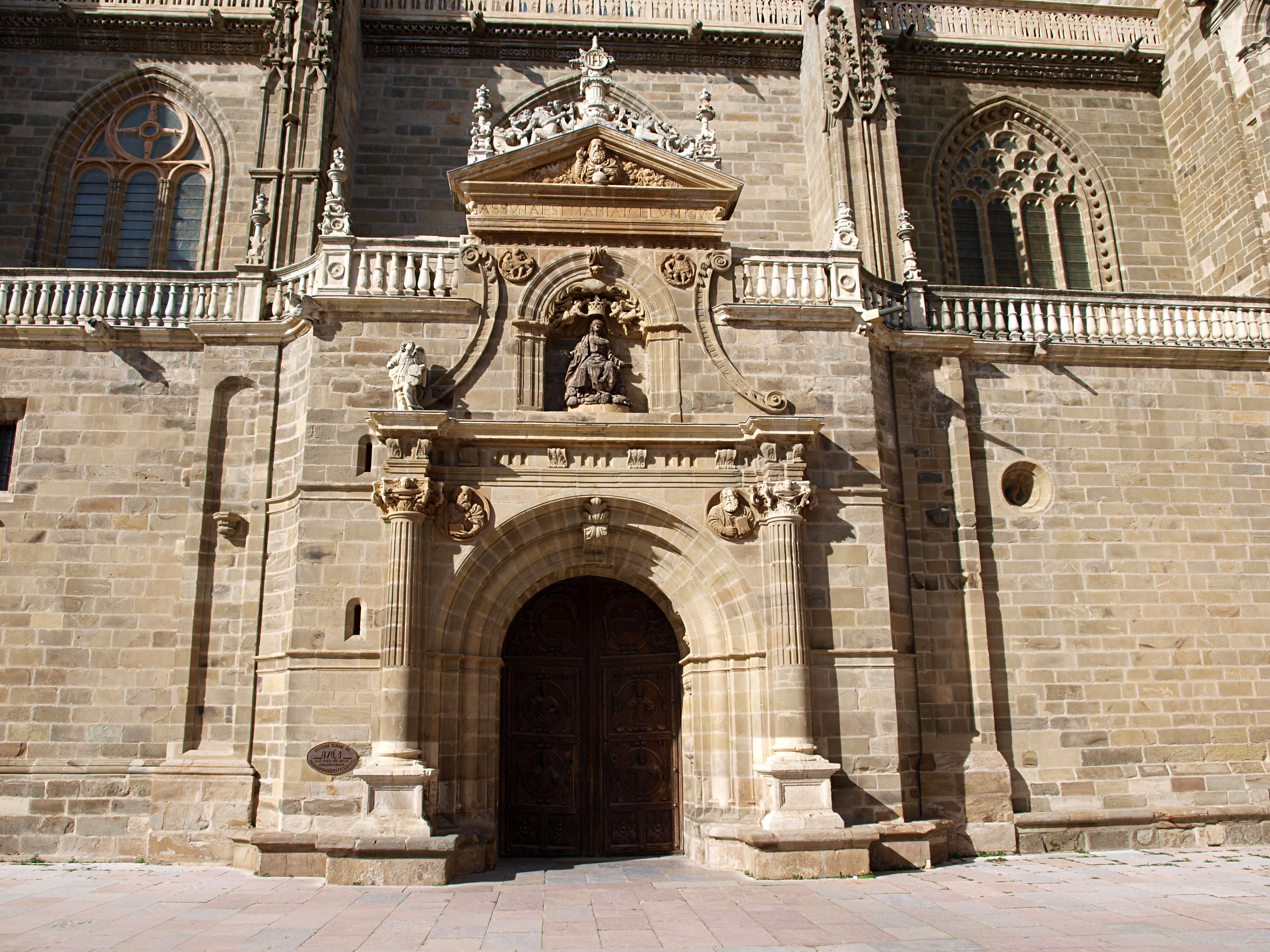 Astorga Cathedral, Astorga (Province of León, Spain).